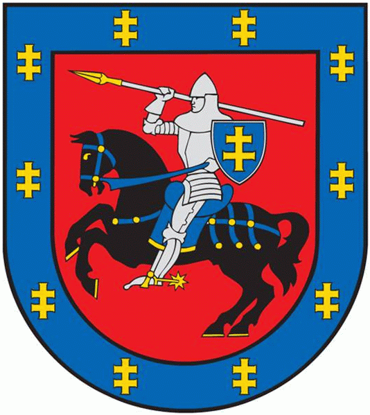 Coat of arms of Utena County, Lithuania